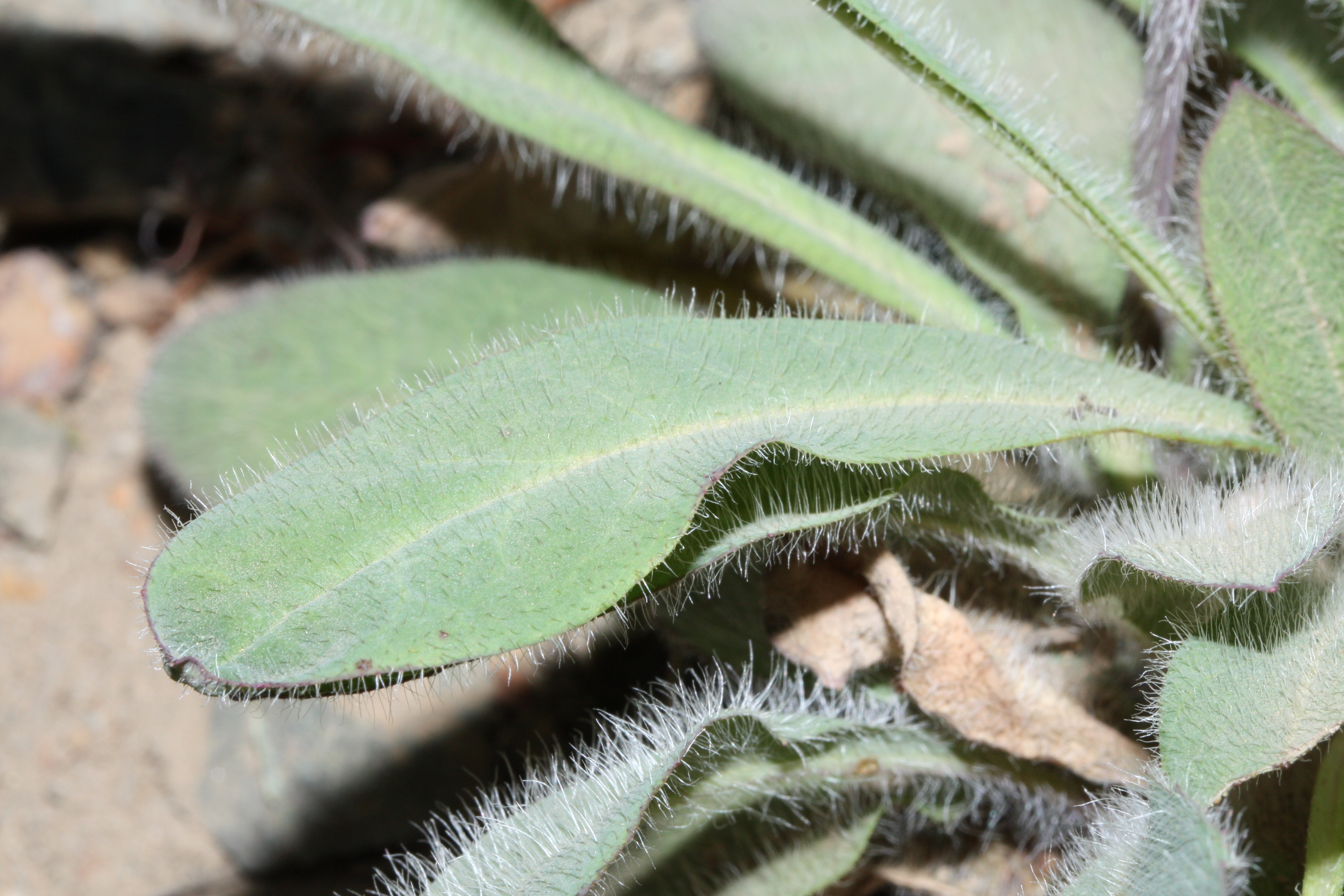 White Hawkweed, White-flowered Hawkweed